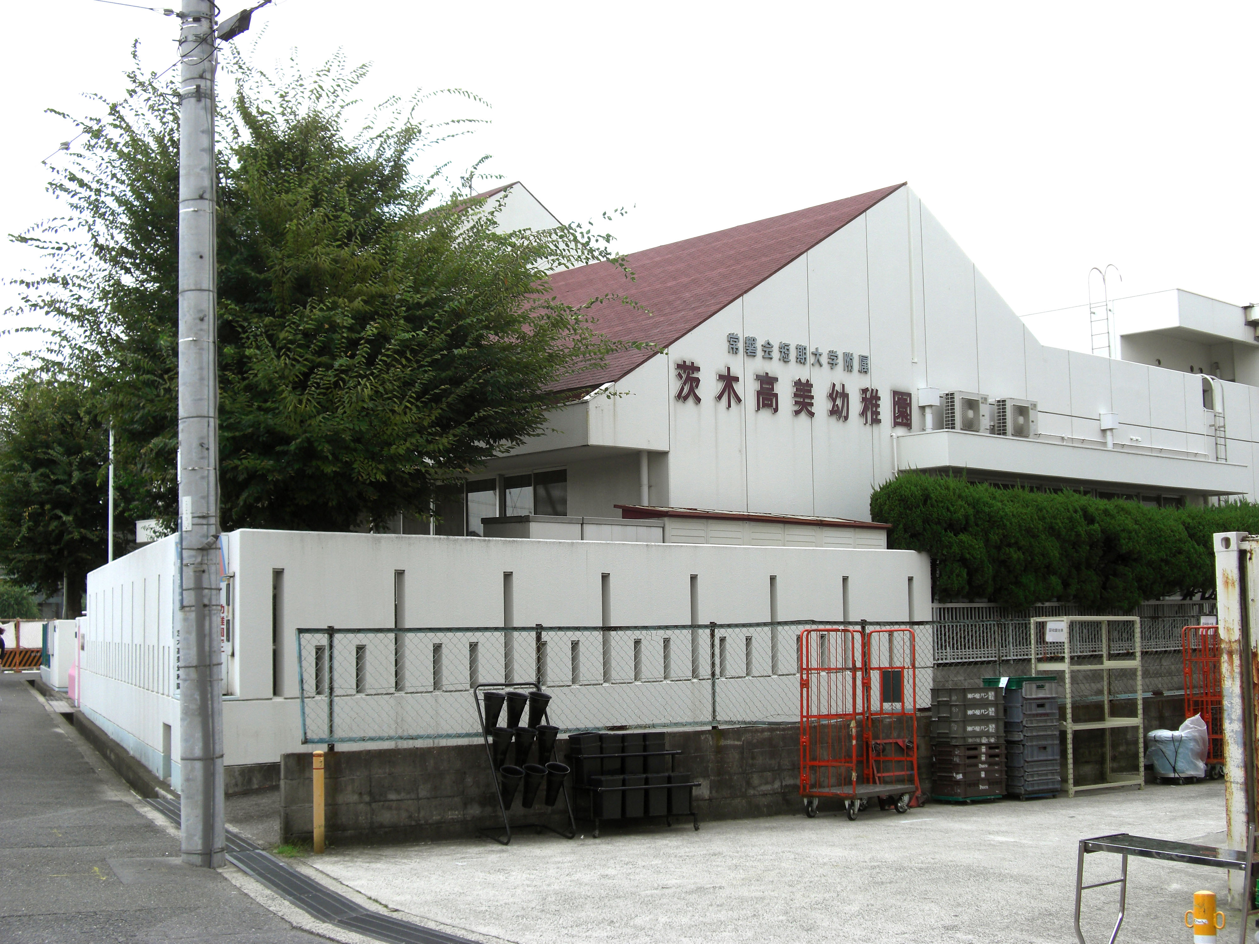 Ibaraki Takami Kindergarten,Ogawacho Ibaraki-City Osaka Japan.